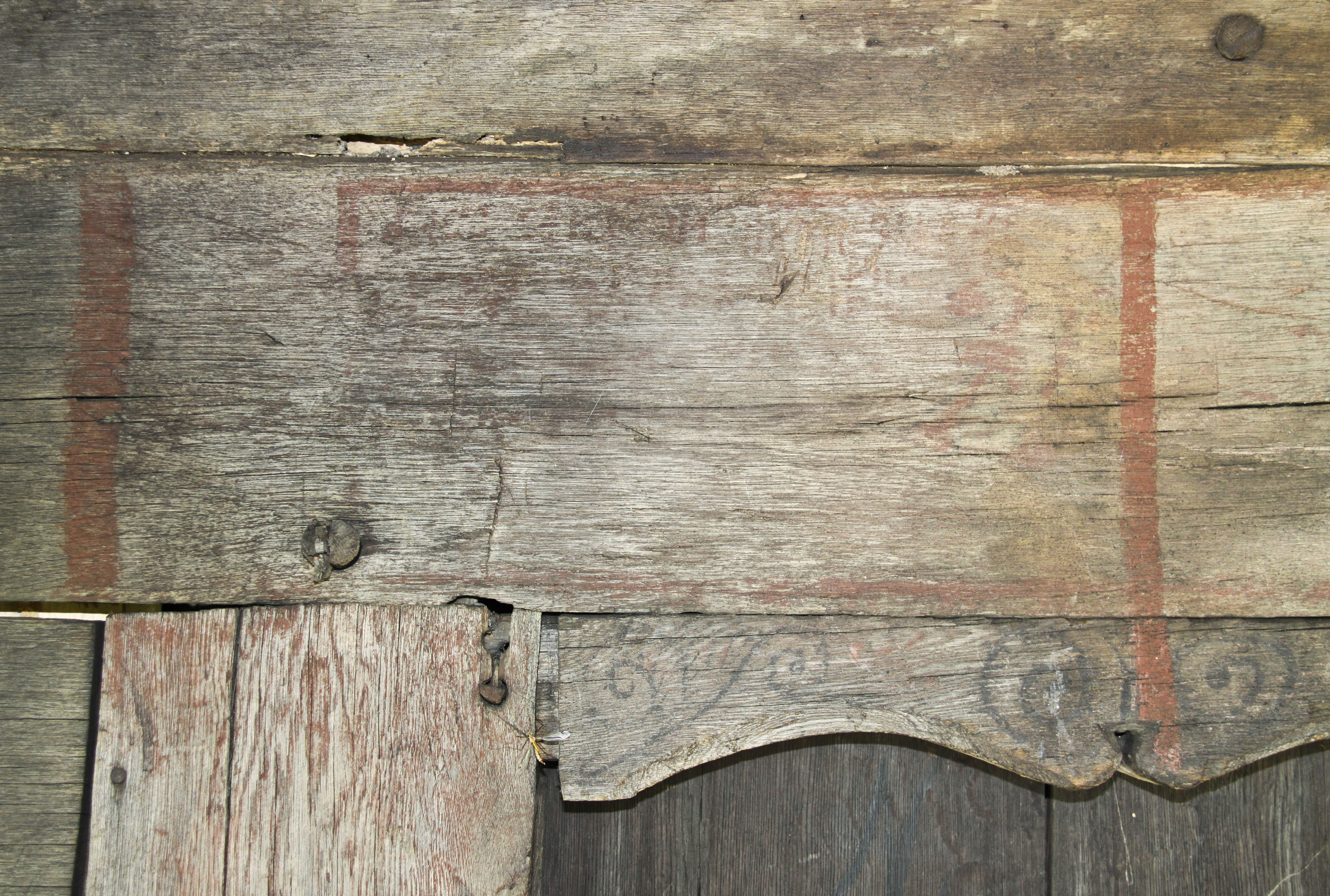 Dealu Bisericii, Vâlcea county, Romania: the wooden church.